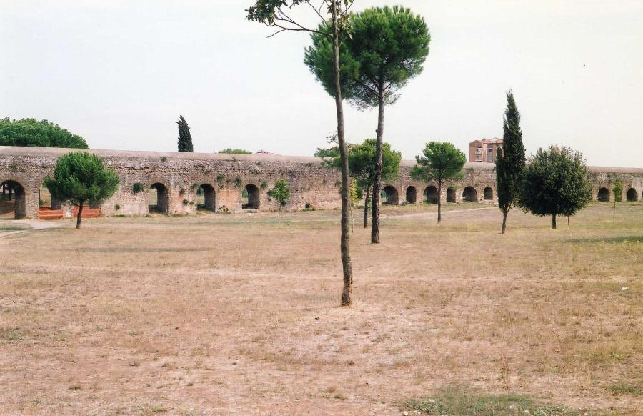 Acqeuduct Park, Rome